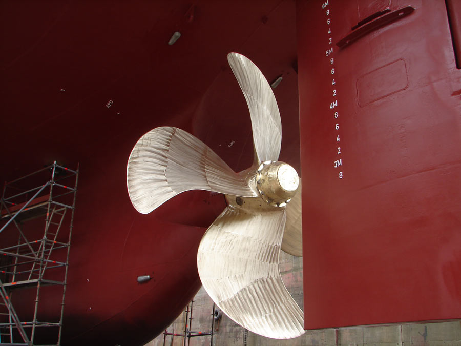 The propeller of the oil/chemical tanker Bro Elizabeth in dry dock in Brest.